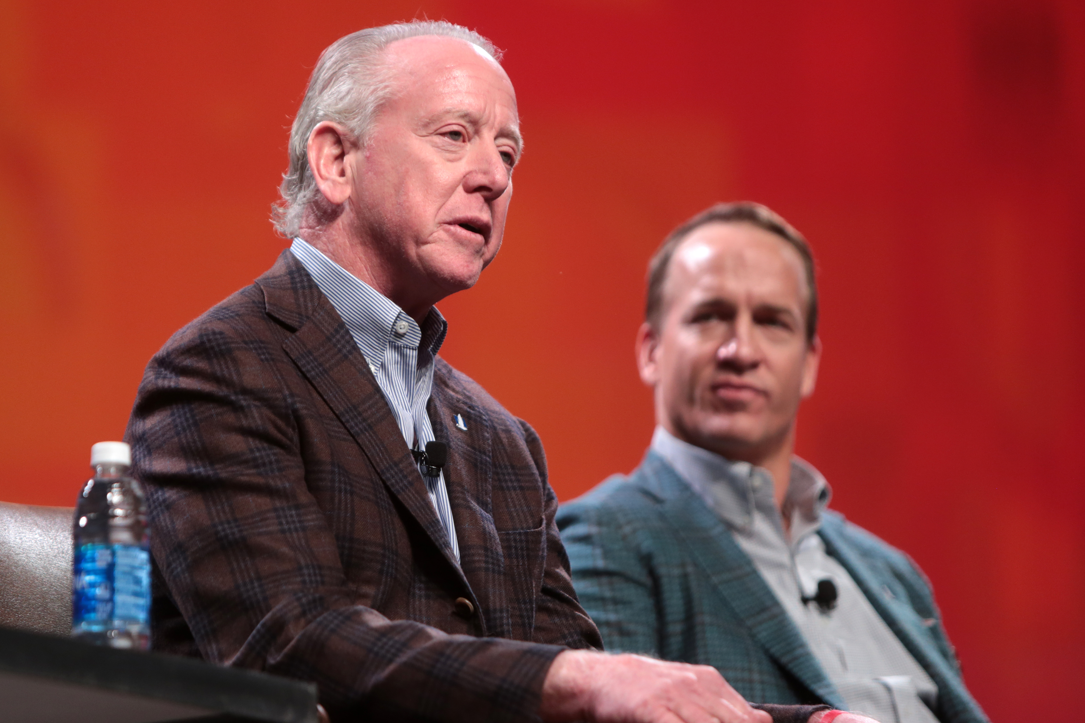 Archie Manning and Peyton Manning speaking at an event in Phoenix, Arizona.